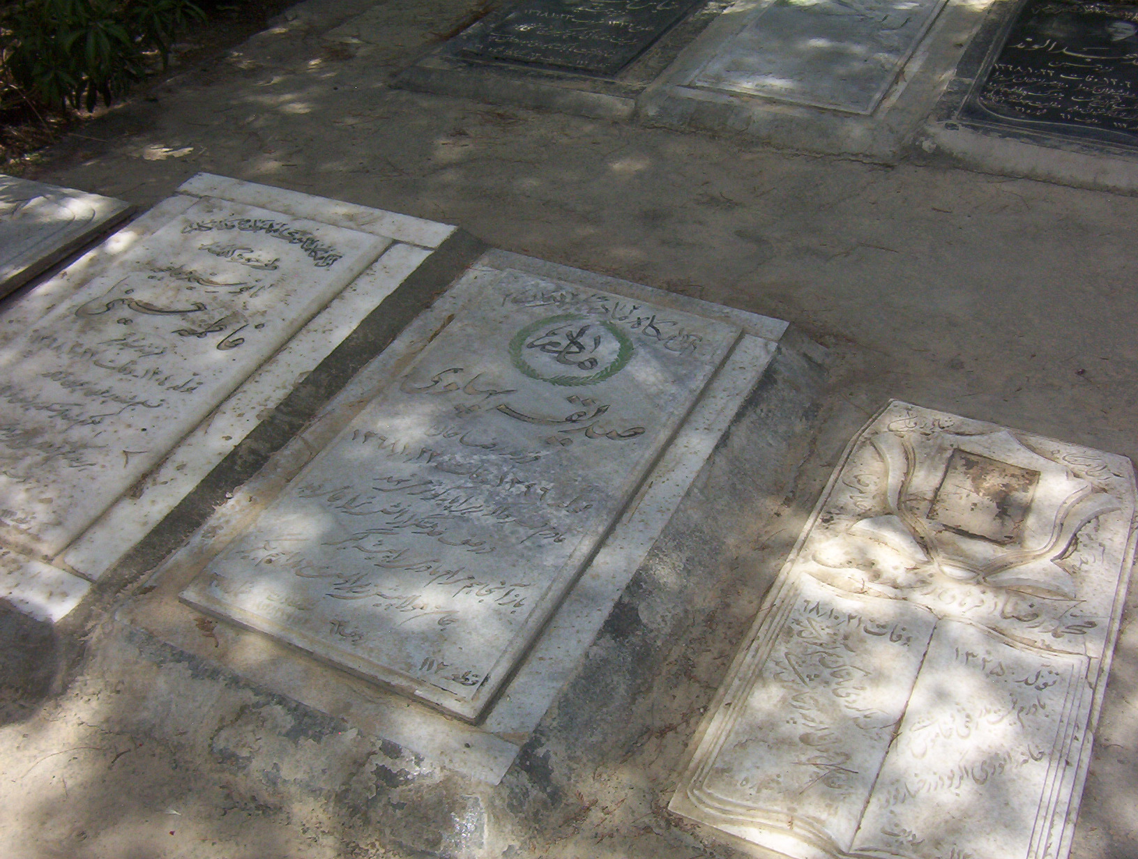 Hamdamsaltaneh Pahlavi tomb